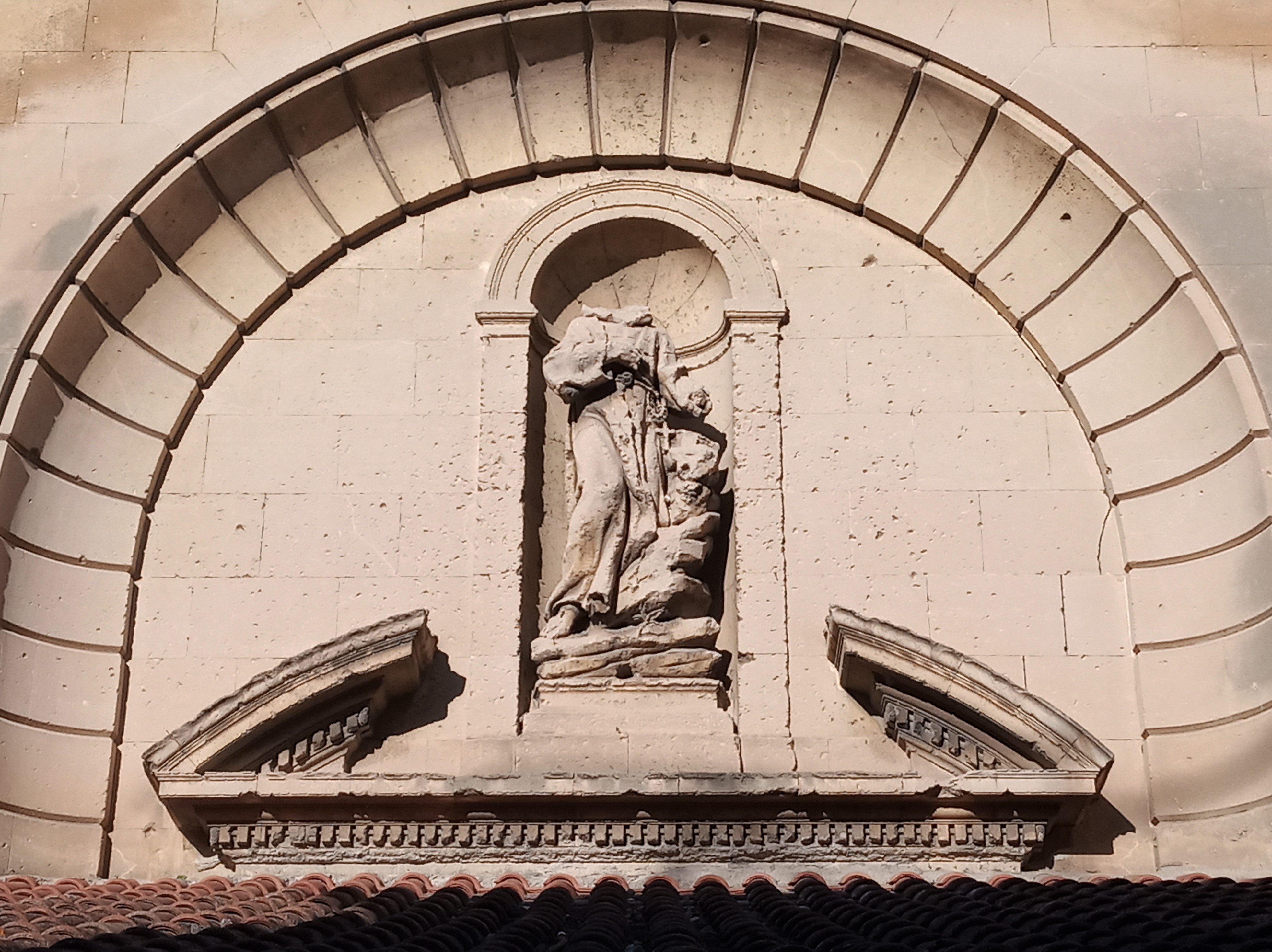 Ancien Couvent des Capucins (Tarascon)